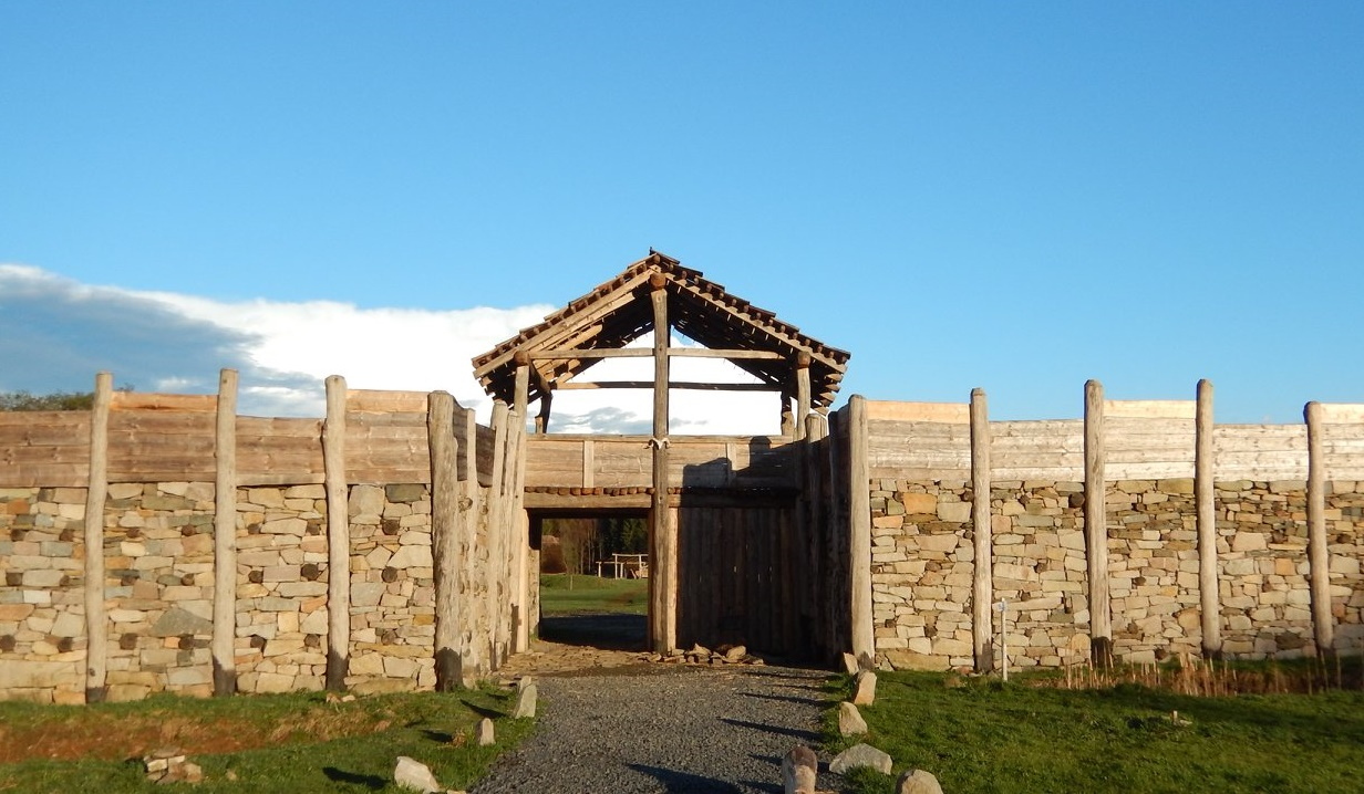 Recontruction of Celtic pincer gate (1st BC) in Zeme Keltu, Nasavrky, Czech republic